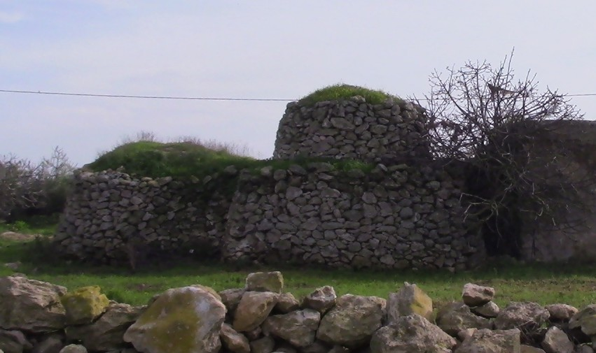 A Tazota, Municipality of Sidi Abed, Province of el-Jadida, Morocco